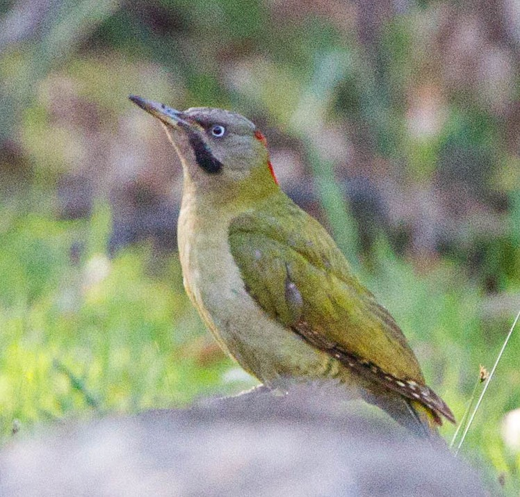 Levaillant's Green Woodpecker (Picus vaillantii) from Morocco, Algeria and Tunisia.